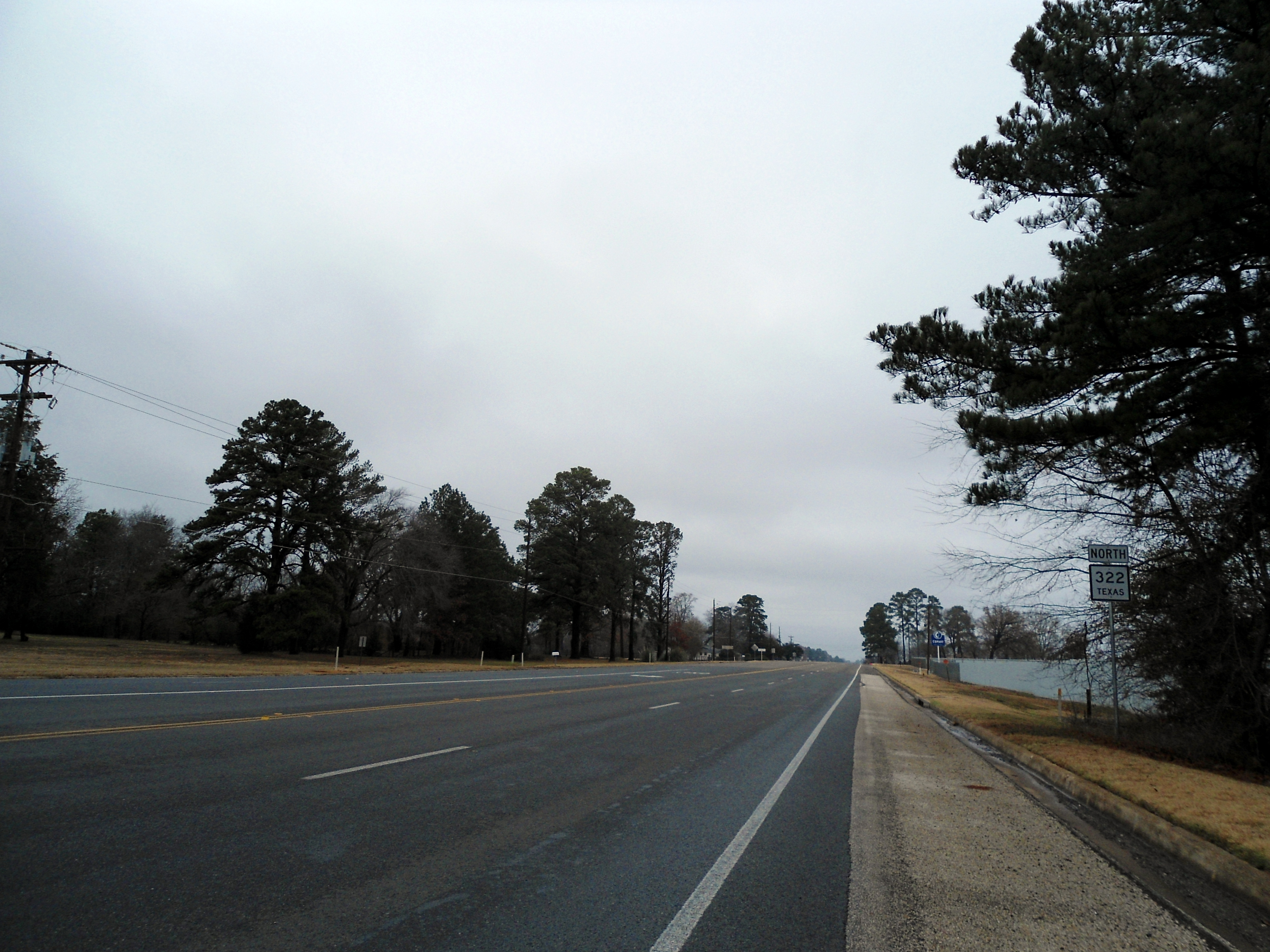 State Highway 322 runs north in Texas. First reassurance marker north of the FM 349 junction, Lakeport, TX.